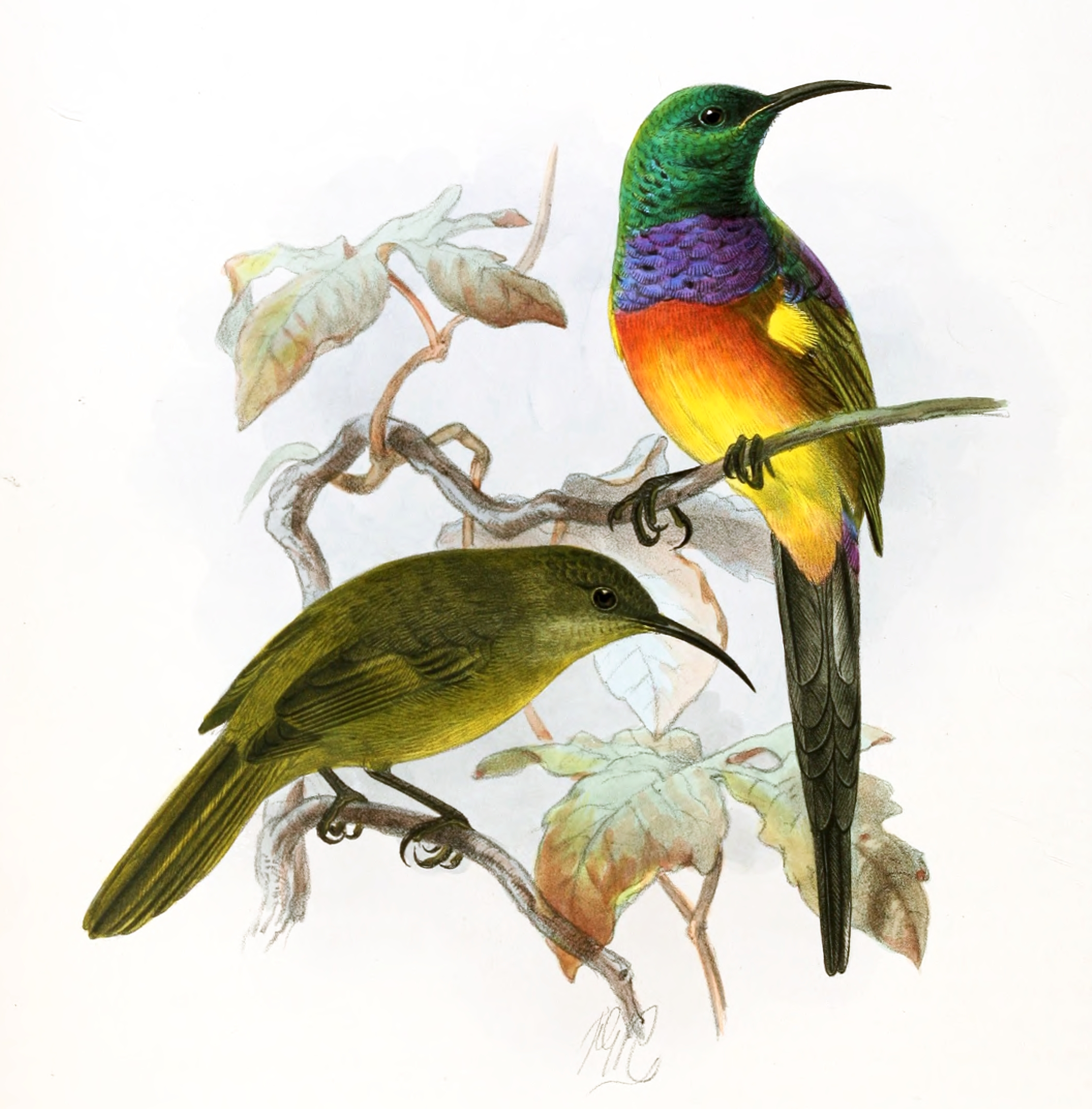 Anthobaphes violacea